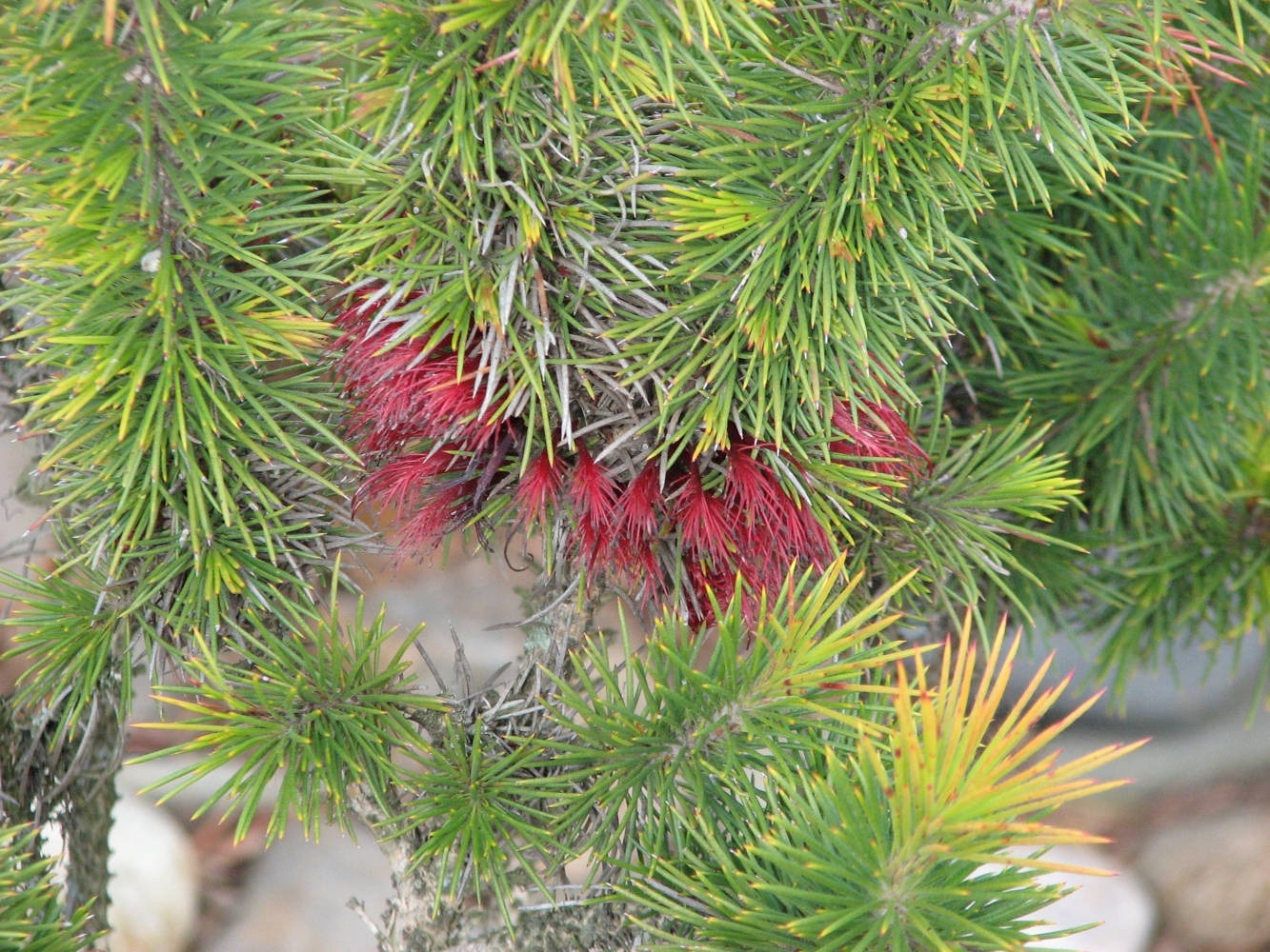 Calothamnus pinifolius (cultivated, labelled) Royal Botanic Gardens Cranbourne, Australia